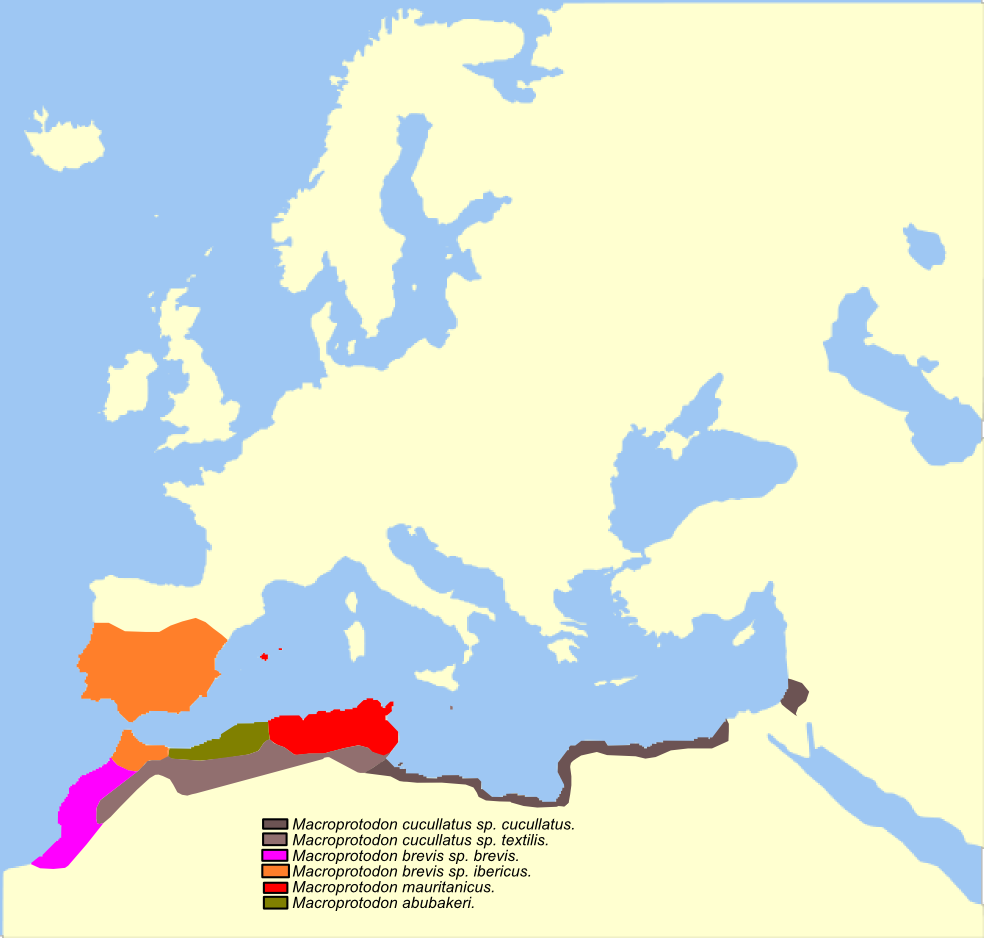 Macroprotodon genus distribution map.